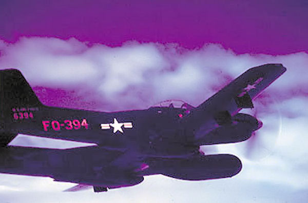 A U.S. Air Force North American F-82G Twin Mustang (s/n 46-394) from the 68th Fighter Interceptor Squadron, 6160th Air Base Wing, in flight during the Korean War. This aircraft was lost on 14 March 1951. The pilot was Capt. Julius C Fluhr from Glenrock NJ